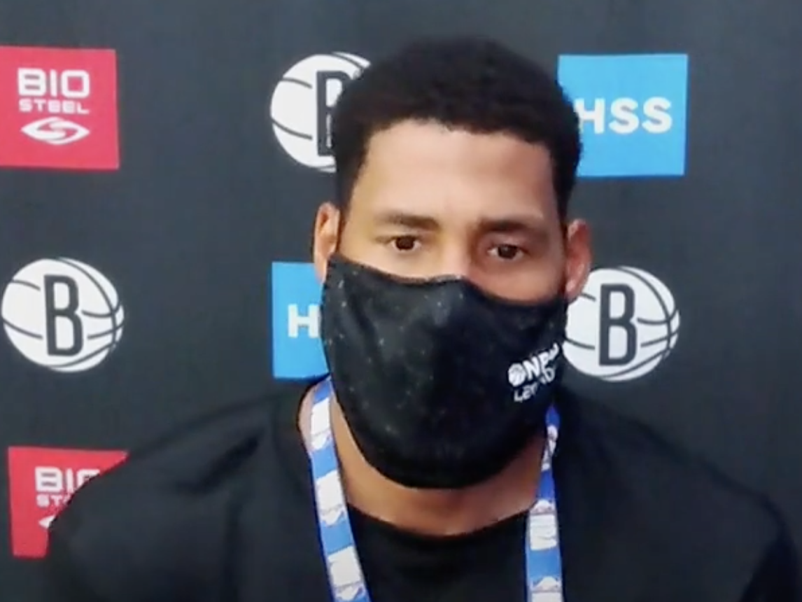 Garrett Temple wearing a mask during a webcam-based press conference held at the same time at the COVID-19 pandemic